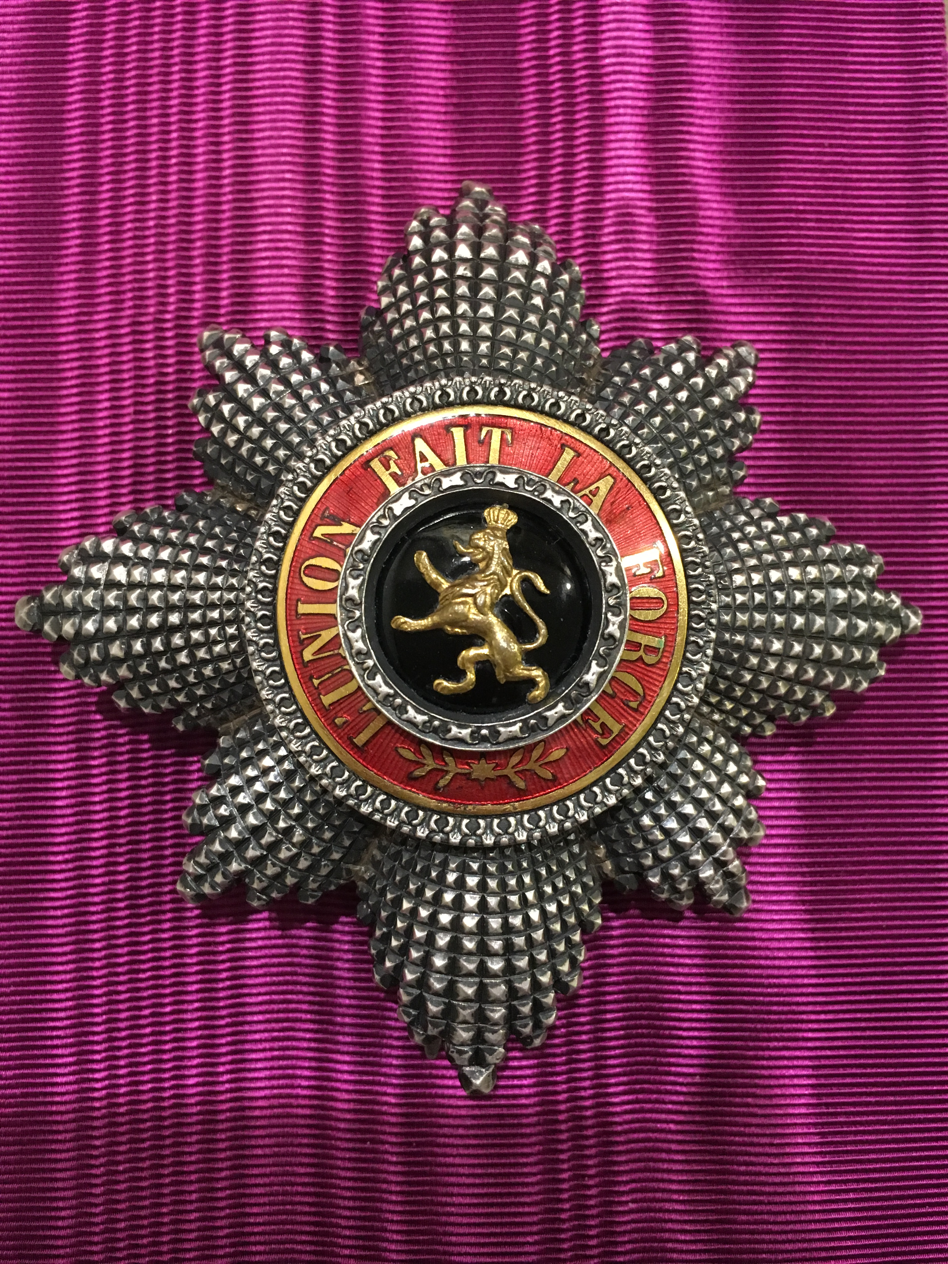 Grand Cross breast star of the Order of Leopold, Kingdom of Belgium (private collection)